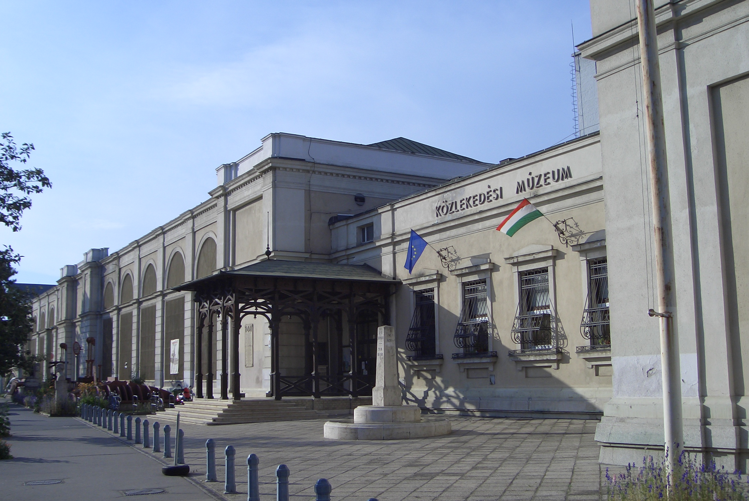 Transport Musem in Budapest City Park. Main entrance front.